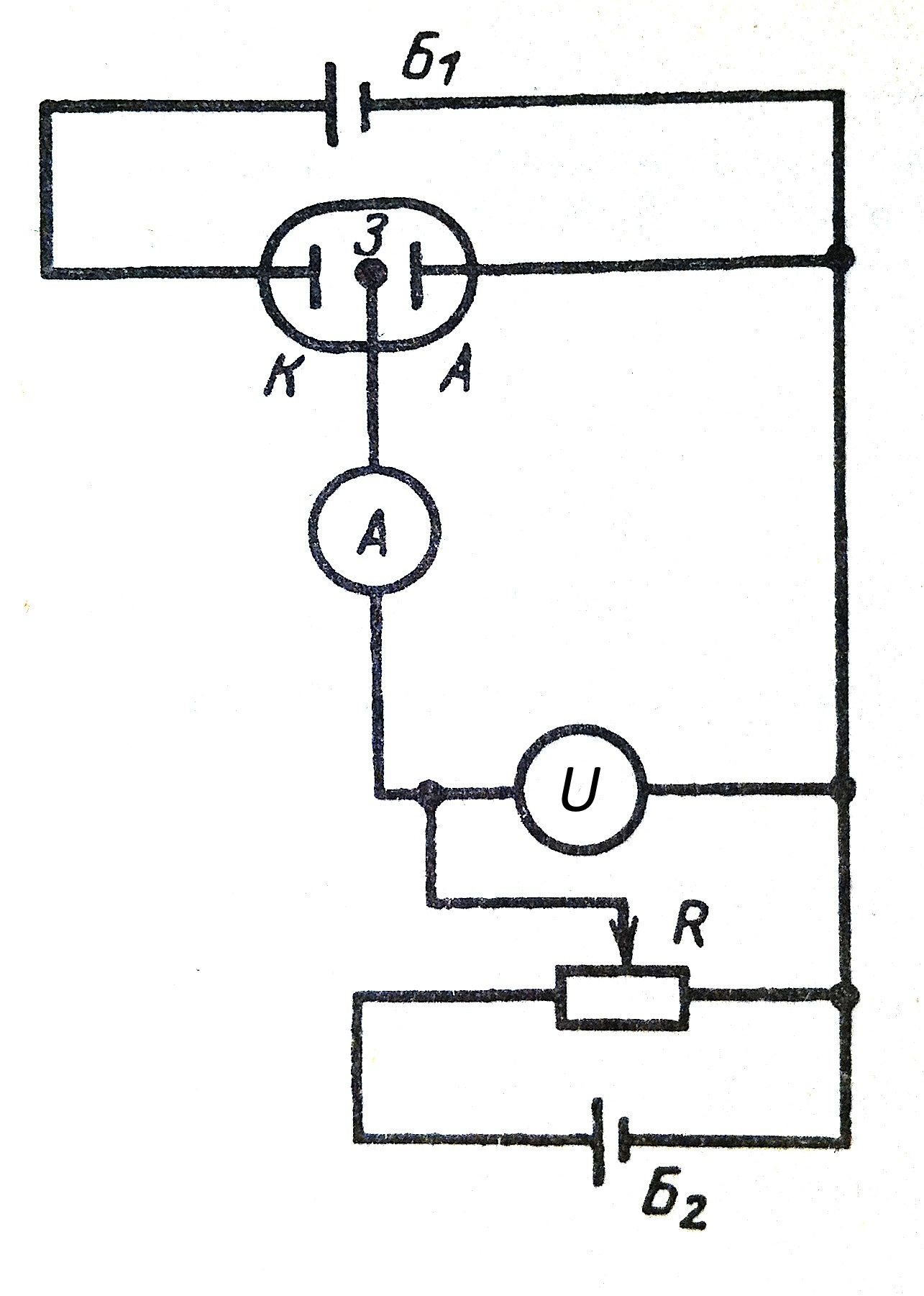 Scheme Langmuir probe